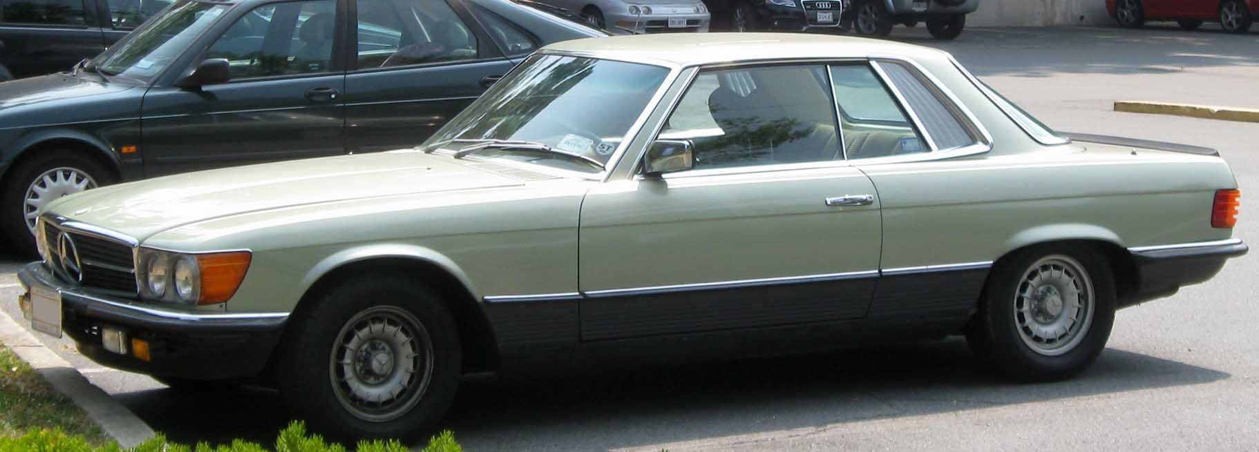 Mercedes-Benz 450SLC 5.0 photographed in Washington, D.C., USA.